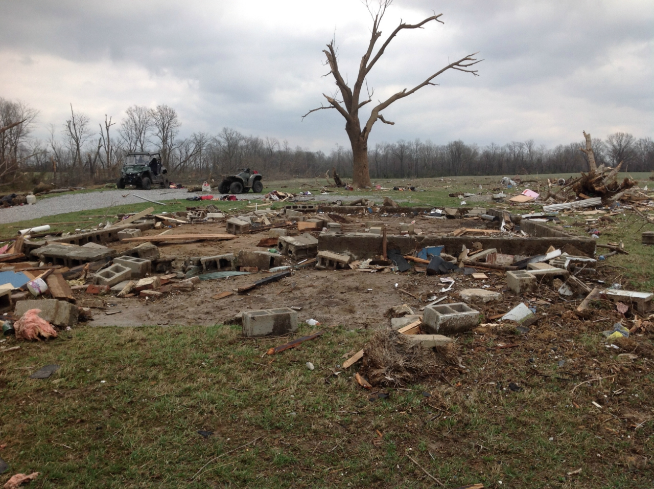 A home completely leveled by an EF4 tornado that tracked from Perryville, Missouri to near Christopher, Illinois.